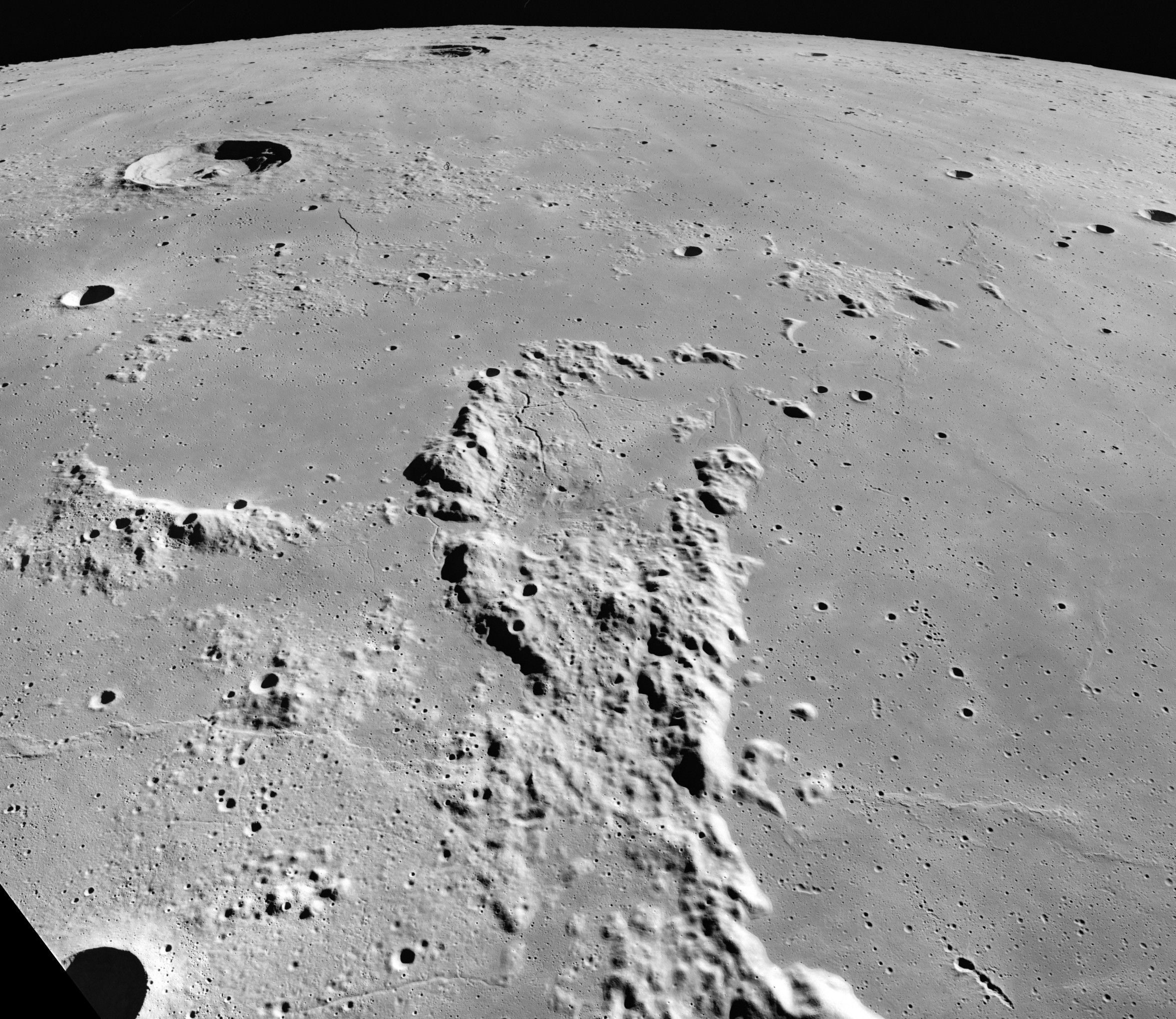 Montes Riphaeus on the Moon. The large crater at upper left is Lansberg, and the large crater near the horizon is Reinhold. The Apollo 12 landing site is in the relatively featureless area in the upper right.